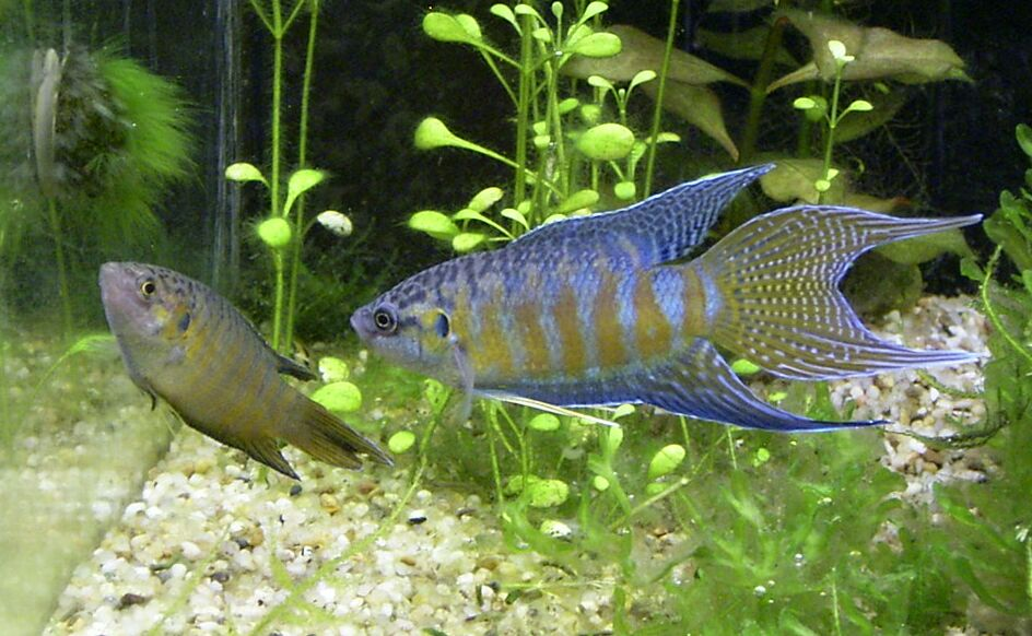 There is a couple of paradise fish (Macropodus opercularis). On the left is female, and the right one is male.